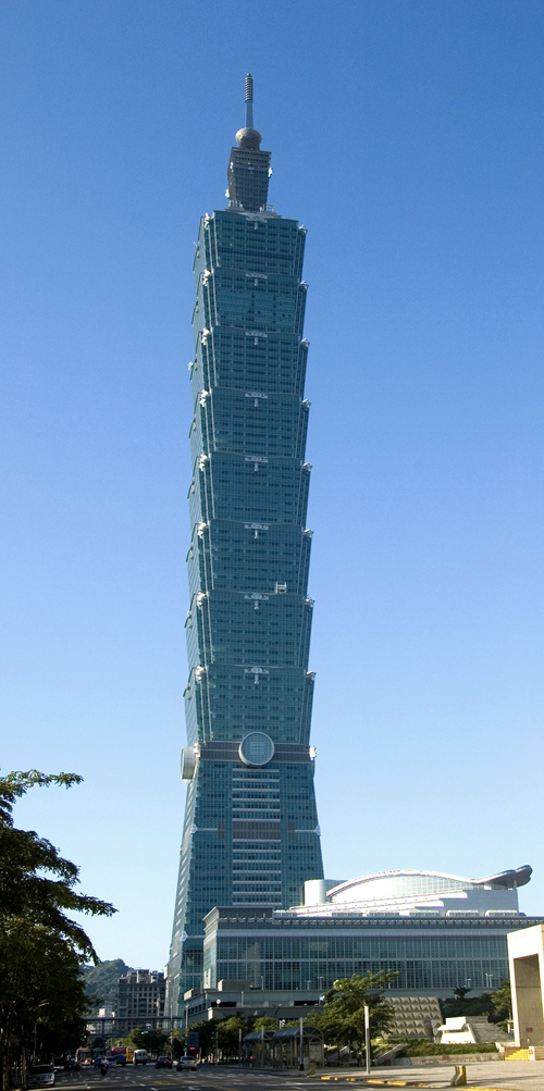 Taipei 101 in Taipei, Taiwan set new skyscraper records when it opened in 2004. (Alton Thompson, 2007) Bân-lâm-gú: Tī i 2004-nî khai-bōo liáu-āu, Tâi-uân Tâi-pak-tshī ê Tâi-pak-101 tshòng-hā tong-sî môo-thian tuā-lâu ê sin kì-lo̍k. 佇伊2004年開幕了後，台灣台北市的台北101創下當時摩天大樓的新記錄。